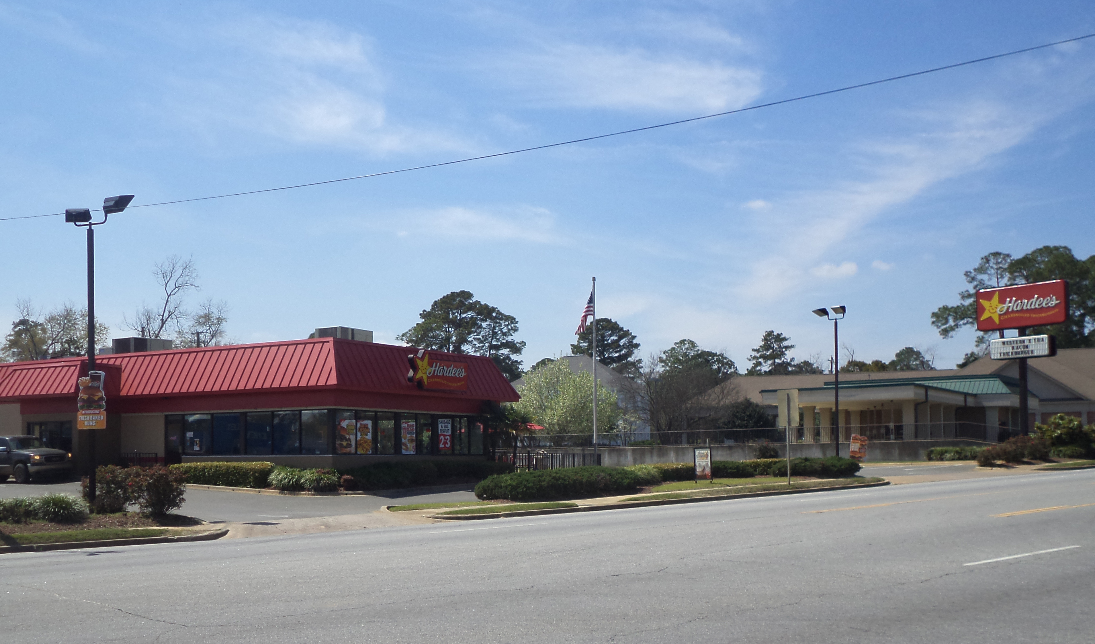 Hardee's, 98 U S Highway 84, Cairo, Grady County, Georgia